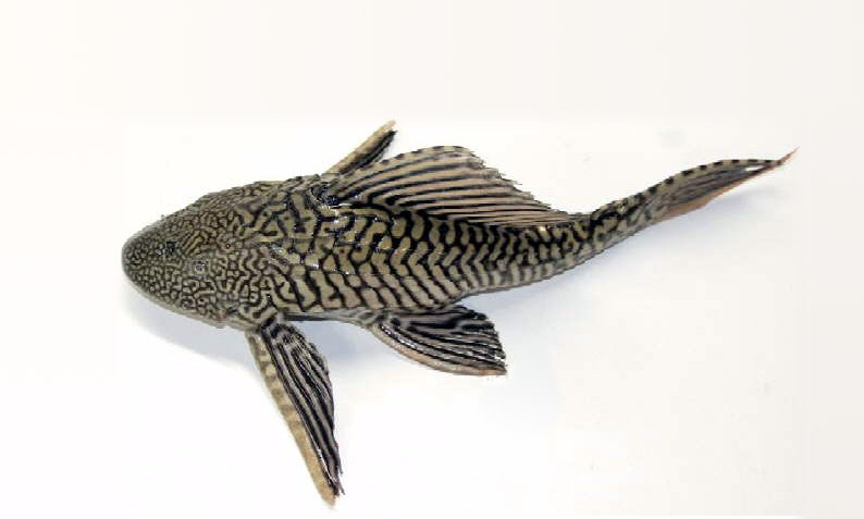 Pterygoplichthys sp. Uncredited photographer. Category:Siluriformes images